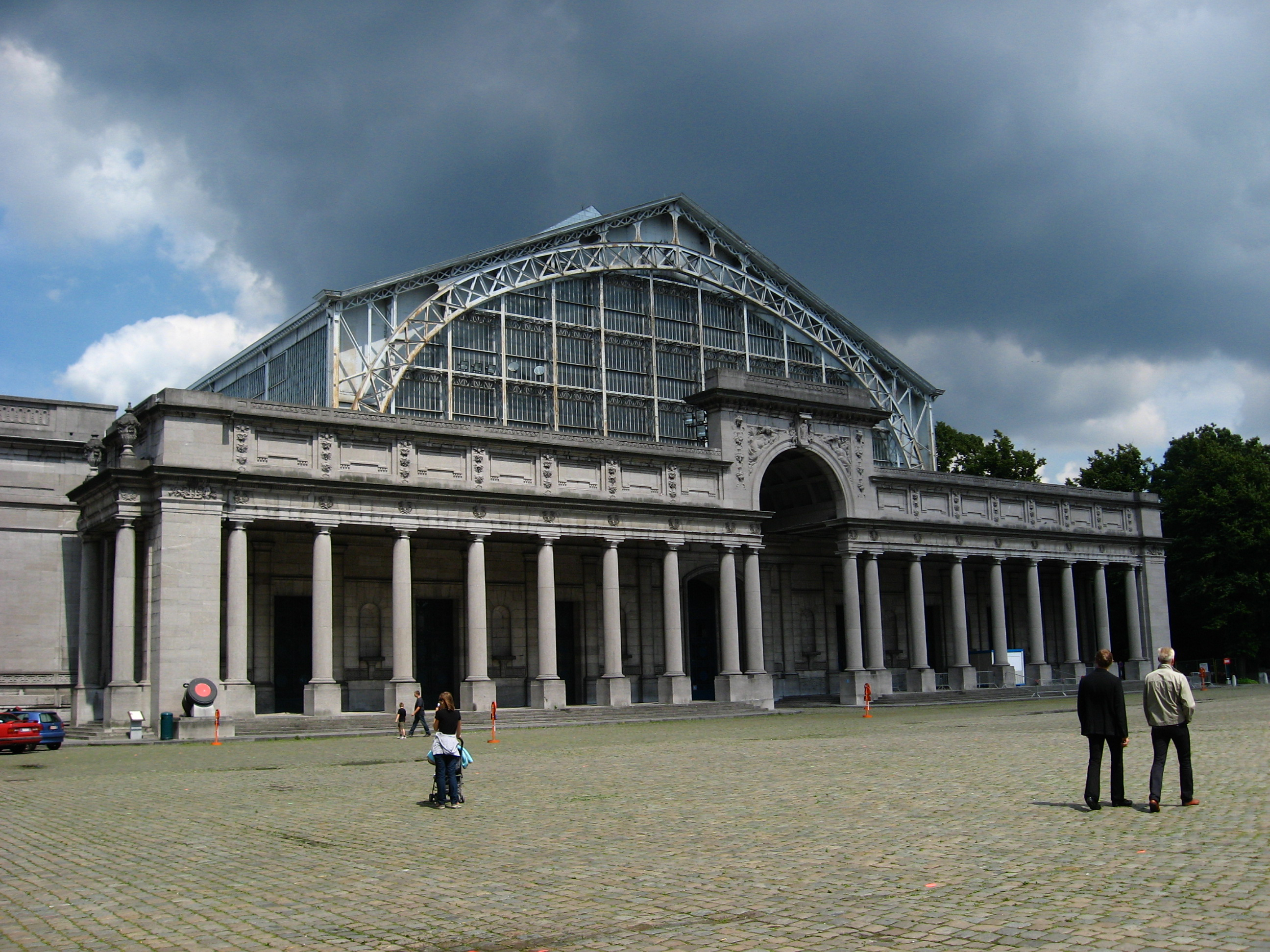 Entrance to the Northern Hall of Parc du Cinquantenaire